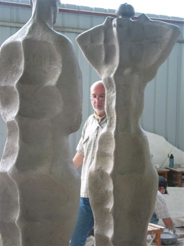 The image was provided by the sculptor, Batu Siharulidze. It shows him working on his Adam & Eve sculpture now on permanent display in the Chanchun Sculpture Park, China.